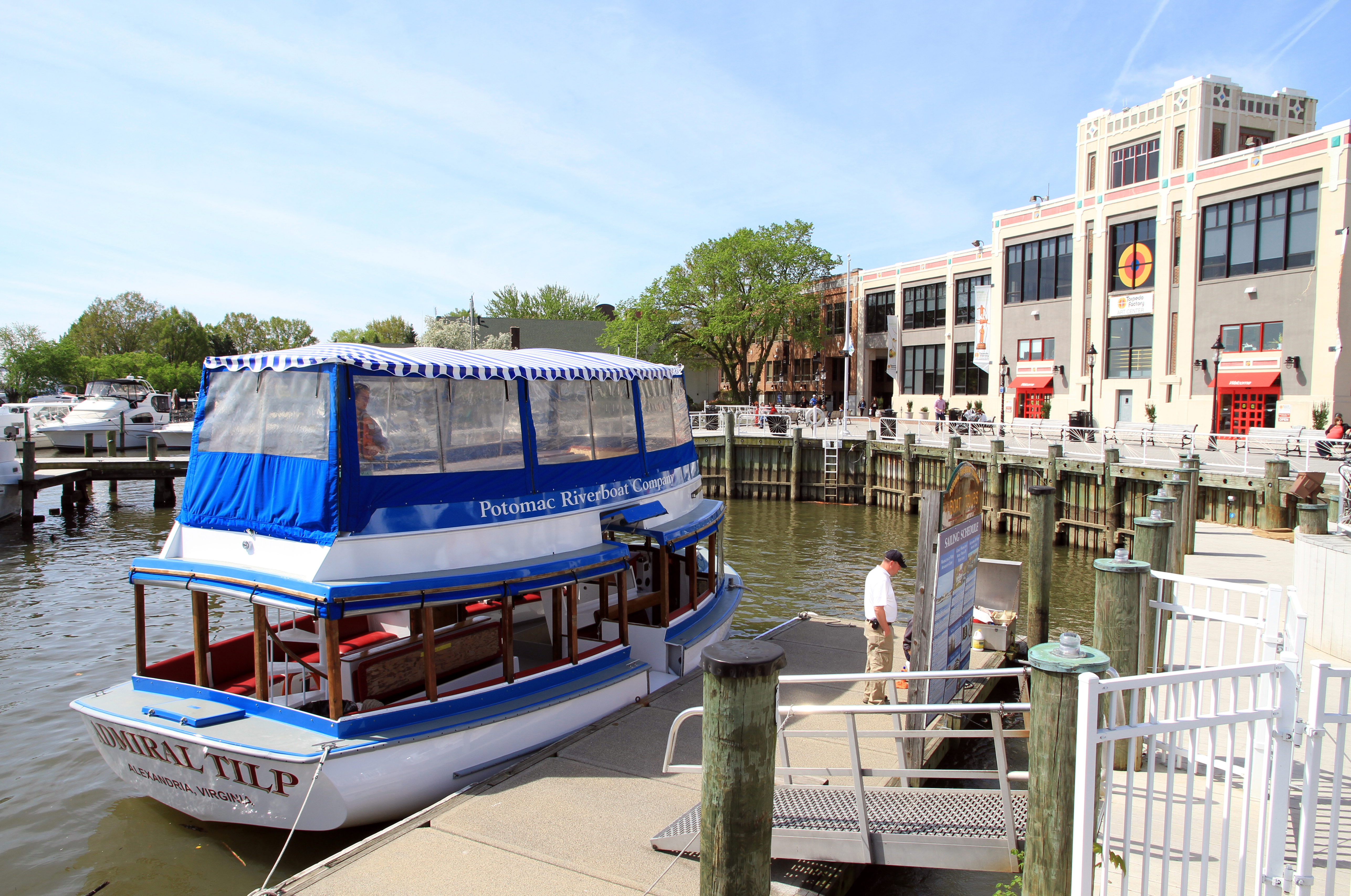 Alexandria Marina